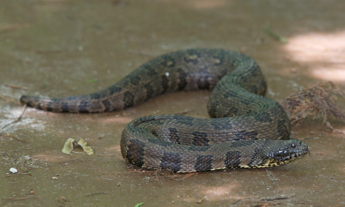 Brown Water Snake (Nerodia taxispilota) in West Palm Beach, Florida.